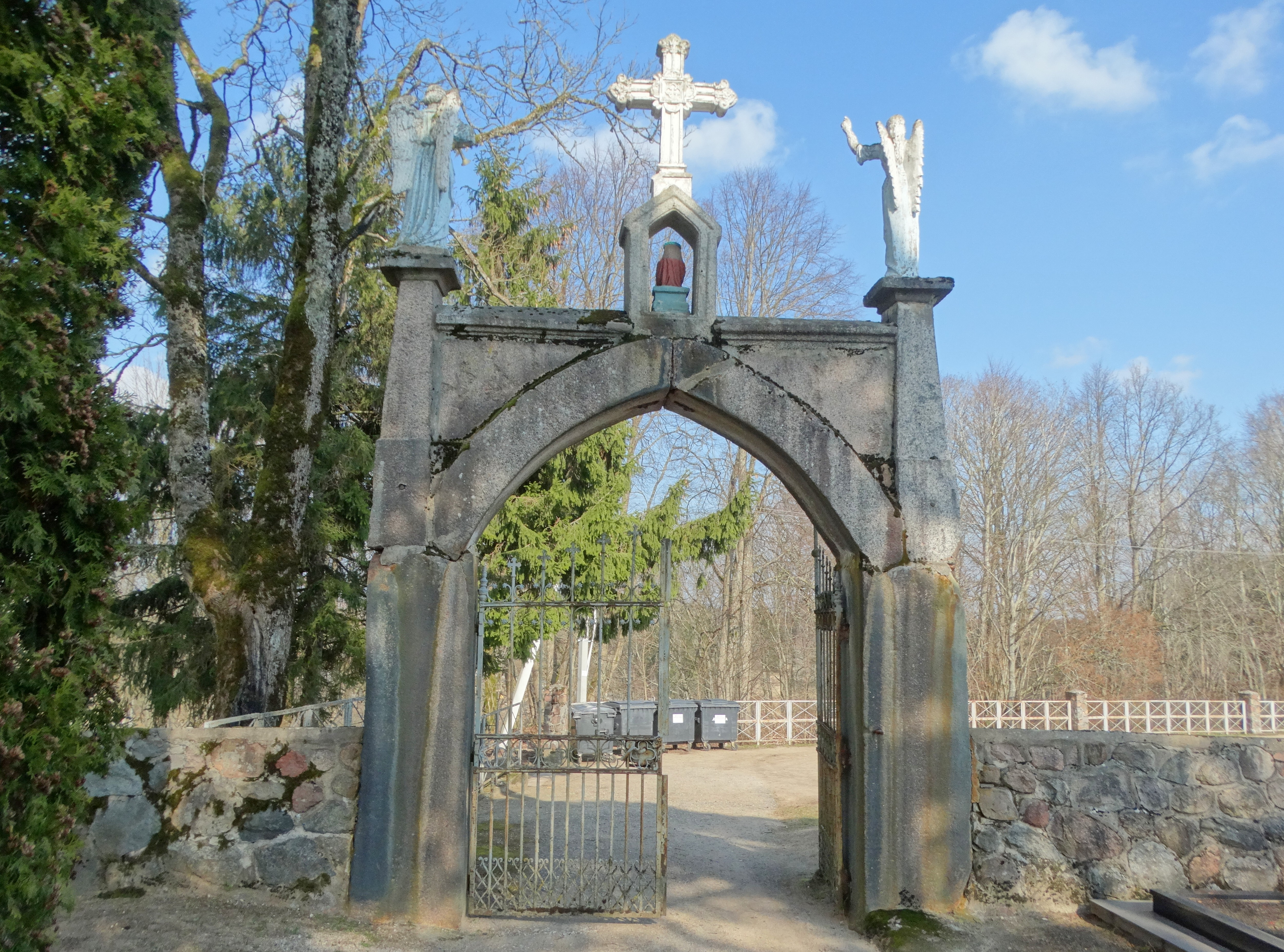 Veiviržėnai, cemetery gates, Klaipėda District, Lithuania